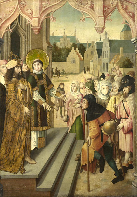 Circle of the Master of the Saint Ursula Legend (Cologne), active late 15th/early 16th century Saint Lawrence showing the Prefect the Treasures of the Church about 1510 Oil on canvas, 130.2 x 92.7 cm Presented by Sir Henry Howorth, through The Art Fund, in memory of Lady Howorth, 1922. NG3665